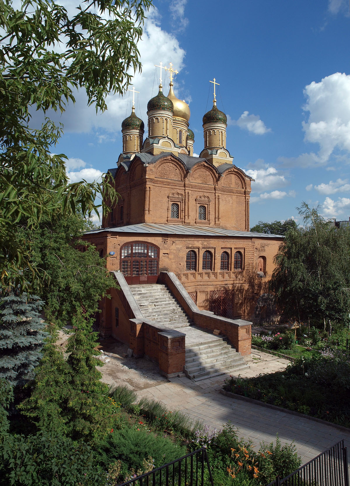 Cathedral of former Znamensky (Theotokos Orans) monastery in Moscow